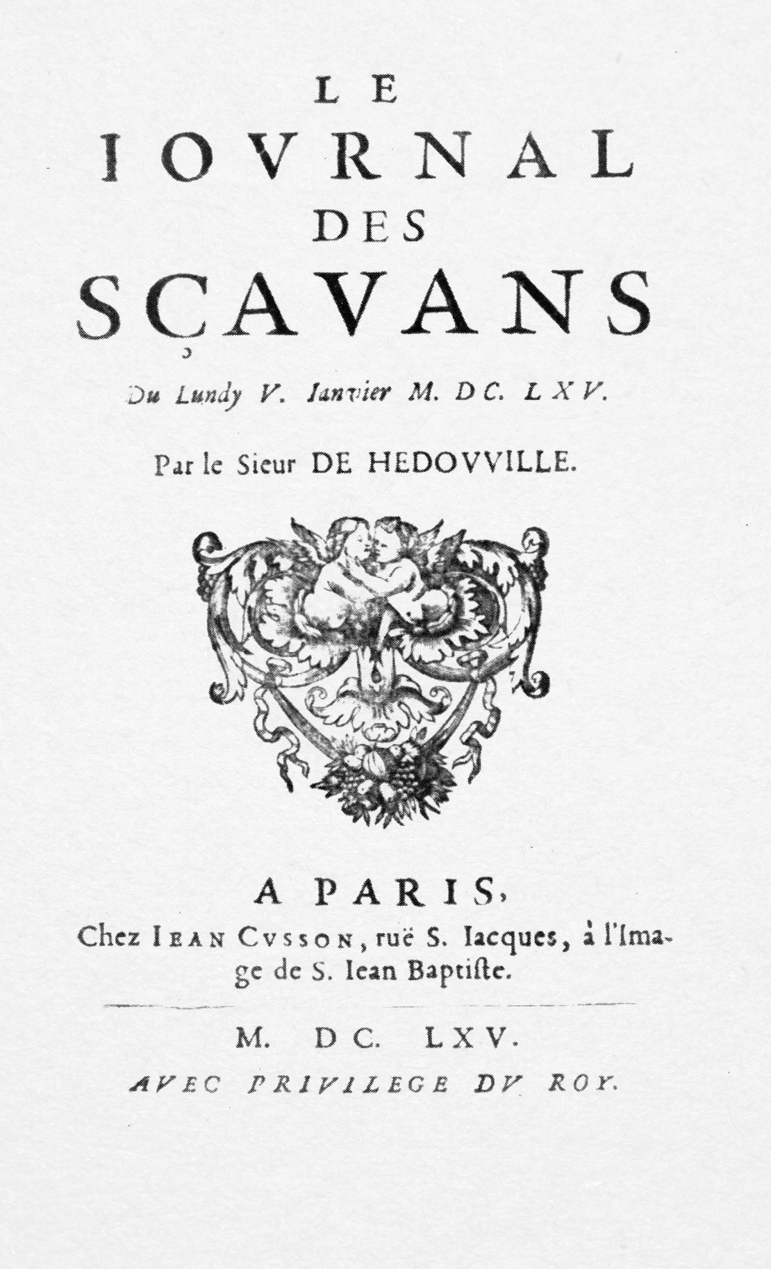 Title page of Journal des sçavans (en, fr), No. 1. The text reads Original FrenchModern FrenchEnglish LE IOURNAL DES SÇAVANS Du Lvndy V. Ianvier M. DC. LXV. Par le Sieur de HEDOVVILLE. [ORNEMENT] A PARIS Chez Iean Cvsson, ruë S. Iacques, à l'Ima- ge de S. Iean Baptiſte. ------------------------- M. DC. LXV. AVEC PRIVILEGE DV ROY. LE JOURNAL DES SAVANTS Du Lundi 5 Janvier 1665. Par le Sieur d'HÉDOUVILLE. [ORNEMENT] À PARIS Chez Jean Cusson, rue St. Jacques, à l'Ima- ge de St. Jean Baptiste. ------------------------- 1665 AVEC PRIVILÈGE DU ROI. THE JOURNAL OF SAVANTS Of Monday, 5 January 1665. By the Sir of HÉDOUVILLE. [ORNAMENT] IN PARIS At Jean Cusson's, St Jacques street, in the Ima- ge of St John the Baptist. ------------------------- 1665 WITH PRIVILEGE OF THE KING.